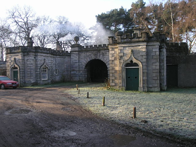 Tunnel End. This tunnel portal at South Lodge is where the V Duke of Portland would have resurfaced after travelling underground from Welbeck Abbey. This incidentally is the nearest tunnel portal to Worksop Station contrary to the popular myth that a tunnel carried the Duke all the way to the station.